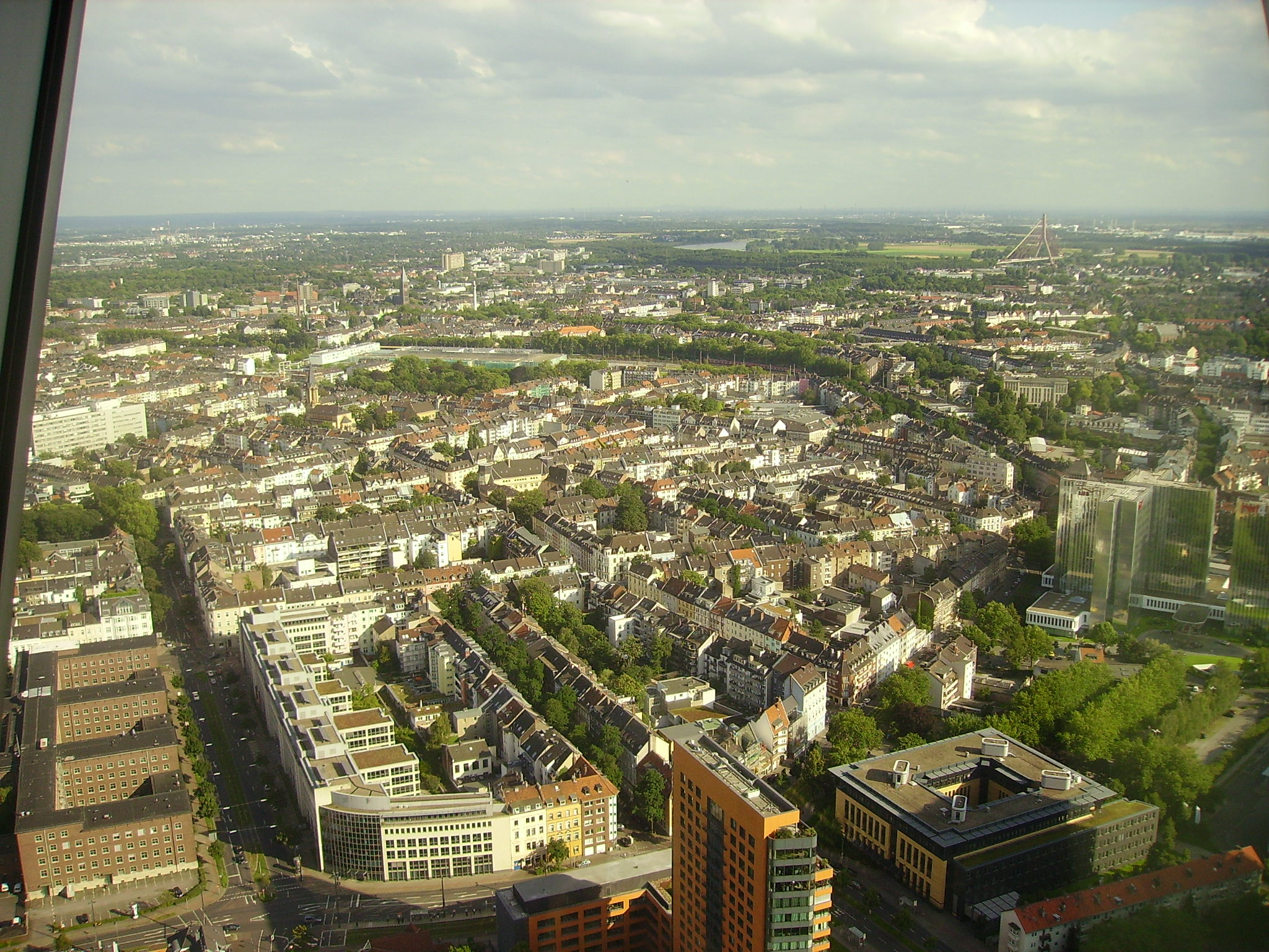 View from the Rhine Tower over Düsseldorf